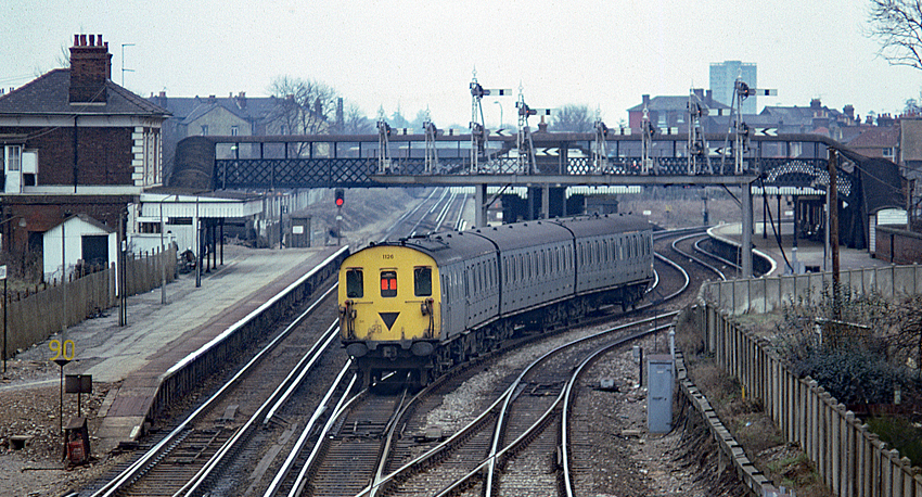 BR class 205 3H DEMU No 1126 (205 026) in BR blue, consisting of vehicles [60125+60671+60825], taking the Portsmouth line at St Denys. Scanned from a Kodachrome 35mm slide.